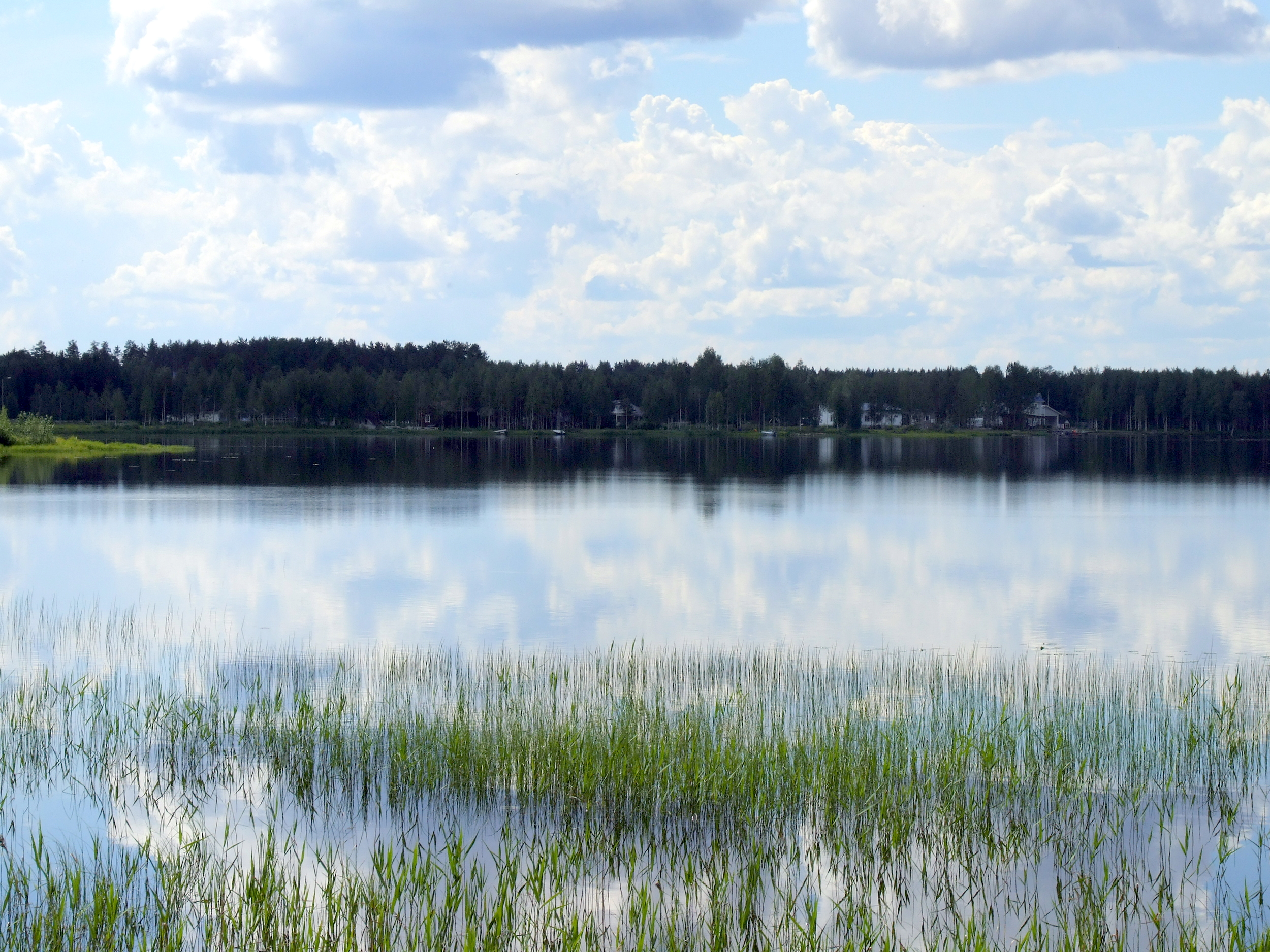 The Lake Pyhännänjärvi in Pyhäntä, Finland.